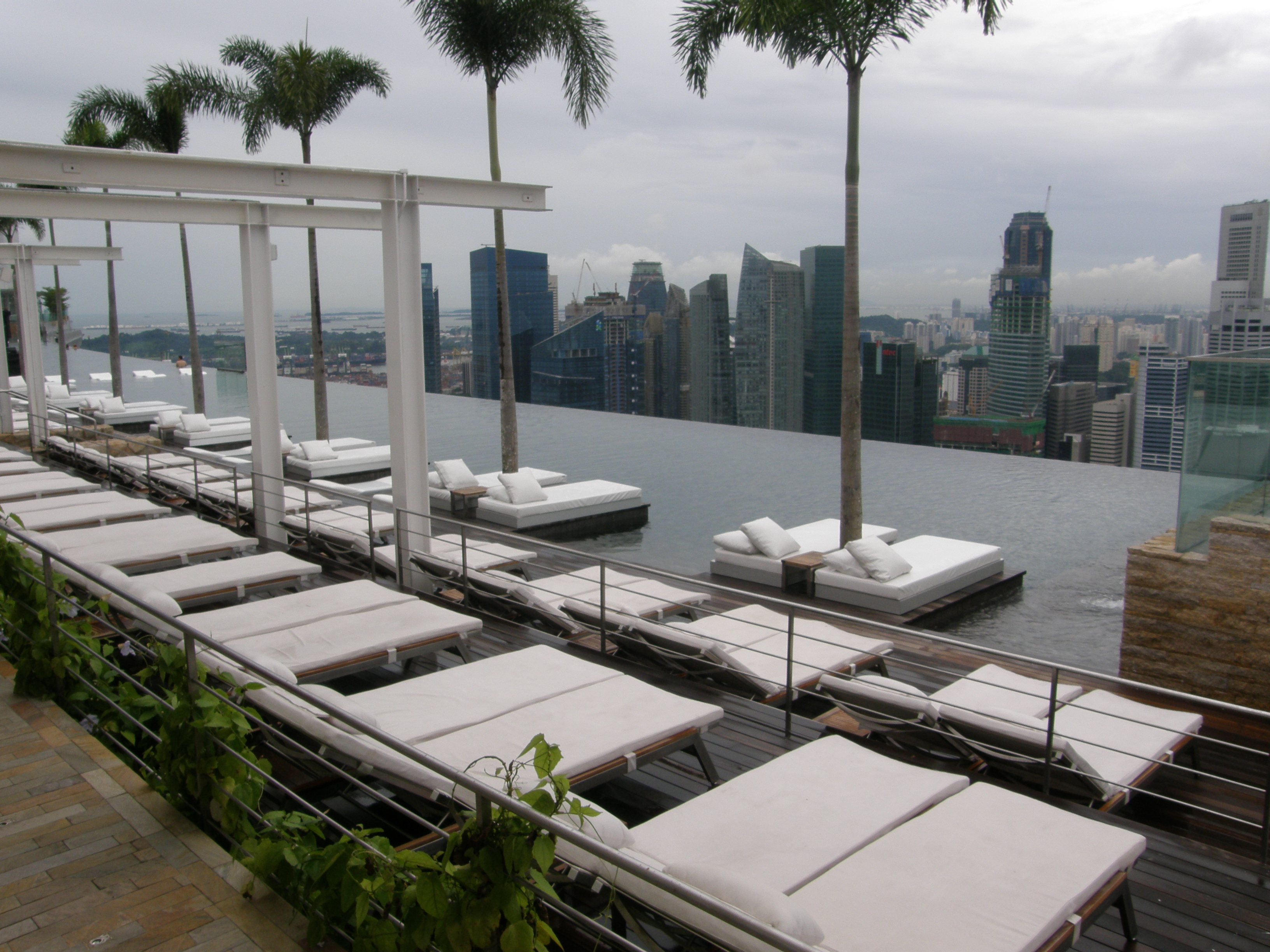 The infinity edge pool at the Sands Sky Park, Marina Bay Sands Hotel, Singapore.